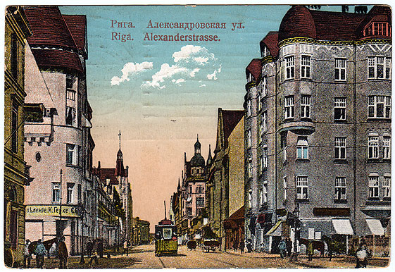 View of Alexanderstrasse, Riga, Latvia - now Freedom Street